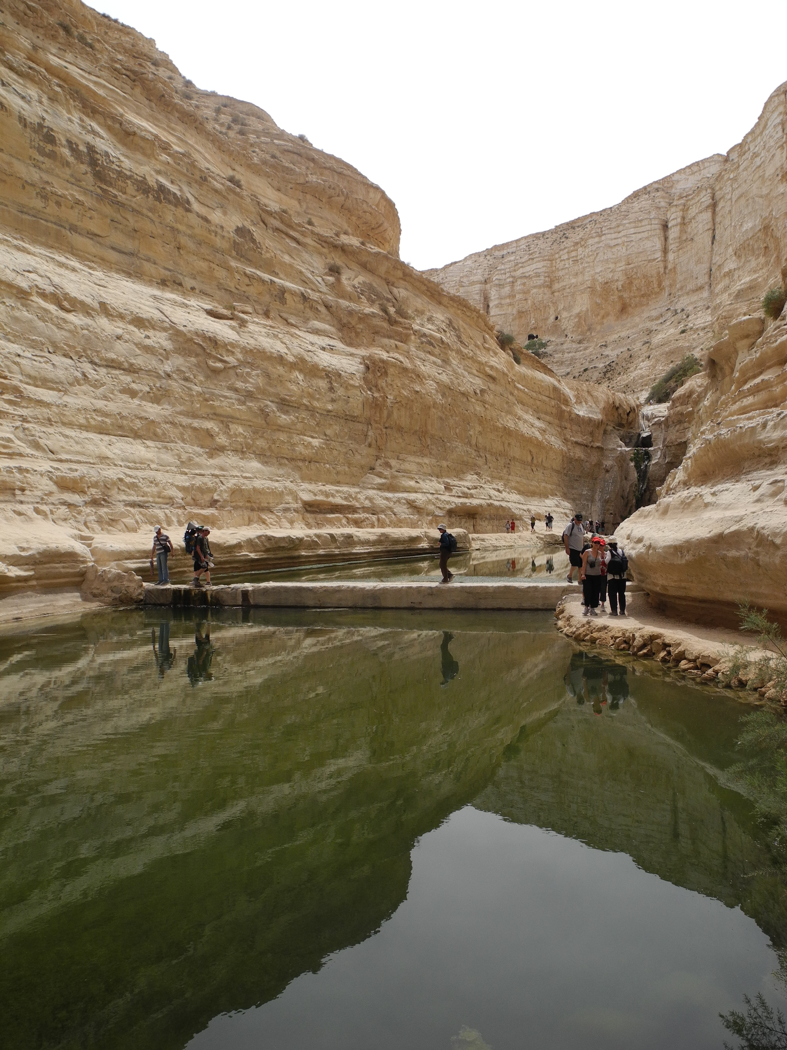 Ein Ovdat nature reserve